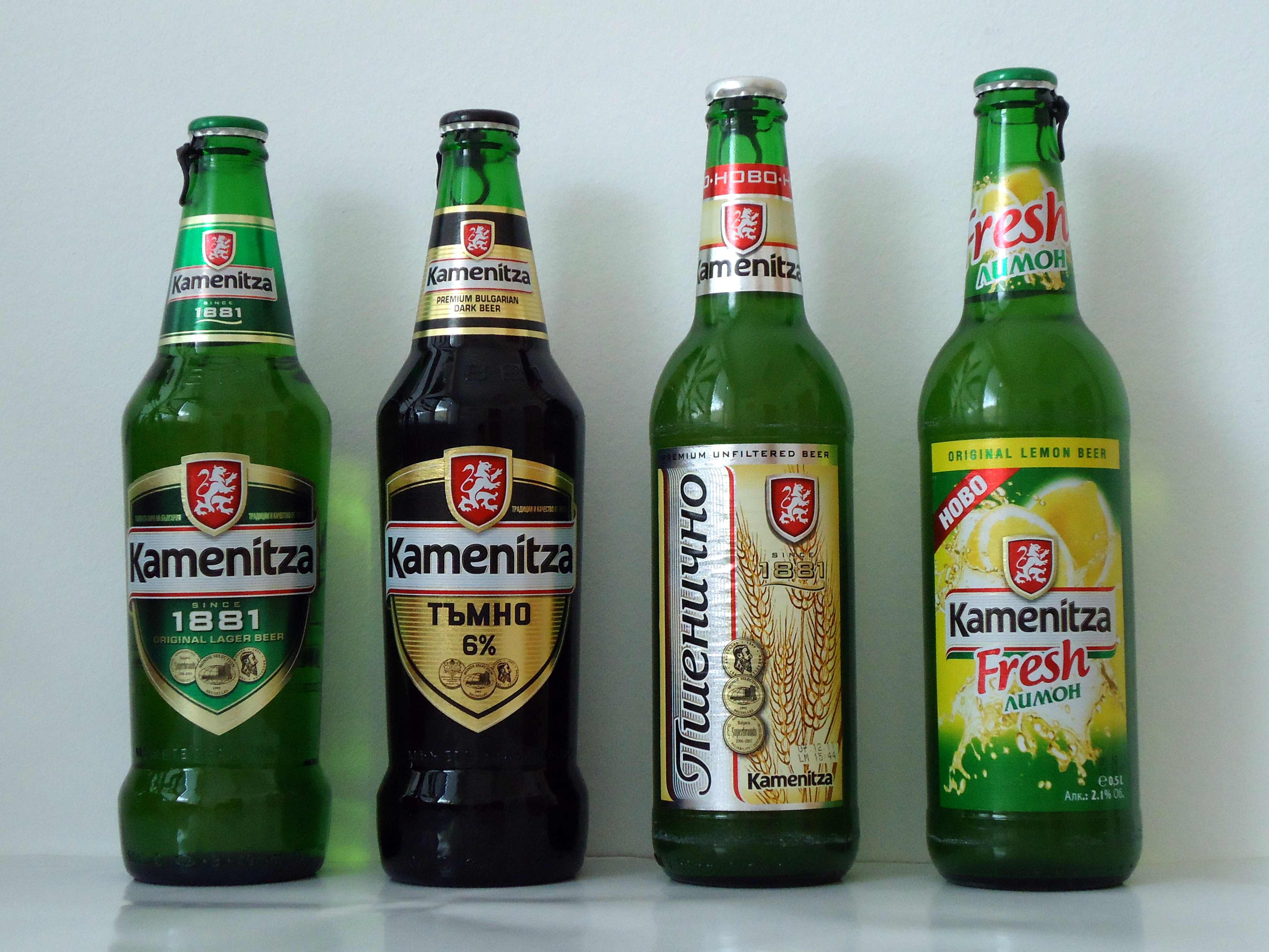 Kamenitza beers (Bulgaria)